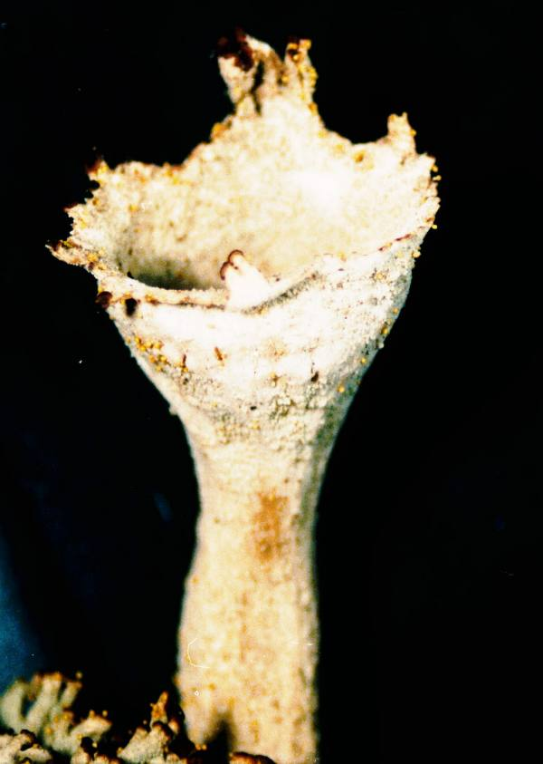 Cladonia chlorophaea (Flörke ex Sommerf.) Spreng., 1827 (photograph of a herbarium specimen taken through a dissecting microscope (x10) showing a podetial cup) Growing on a stump in a moist area along Route 40, 0.5 mile E of Route 144 (W of Hancock), Washington County, Maryland, USA; collected and identified by A. Norden and B. Norden (No. L-19, 24 Jun 1974); specimen is now in the Lichen Herbarium of the New York Botanical Garden.